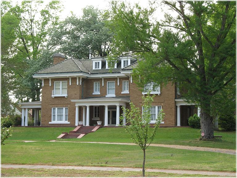 A photo of the Aldridge H. Vann House in Franklinton, North Carolina.